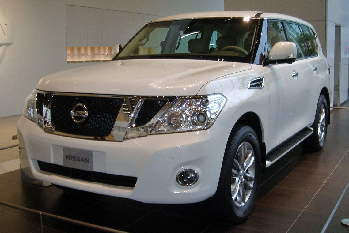 Nissan Patrol